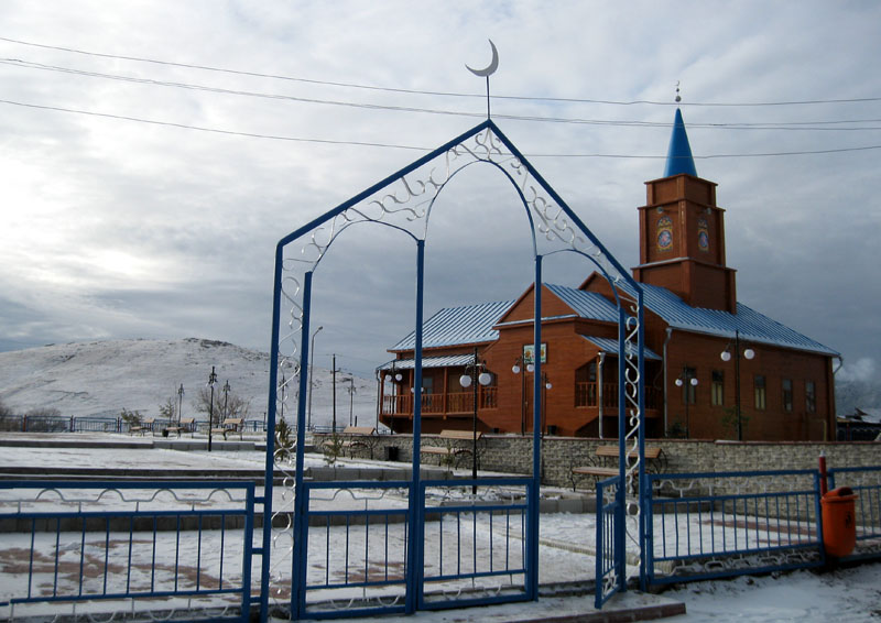 Kunabaev Mosque in Karkaraly